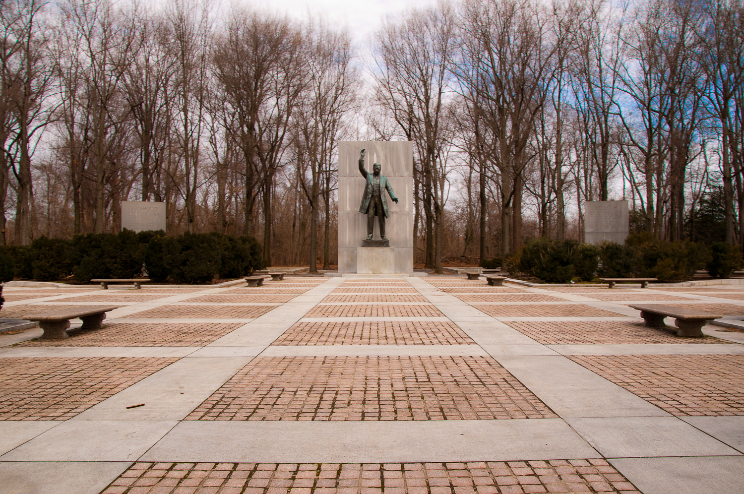 Located on Theodore Roosevelt Island, a US National Park in the Potomac River